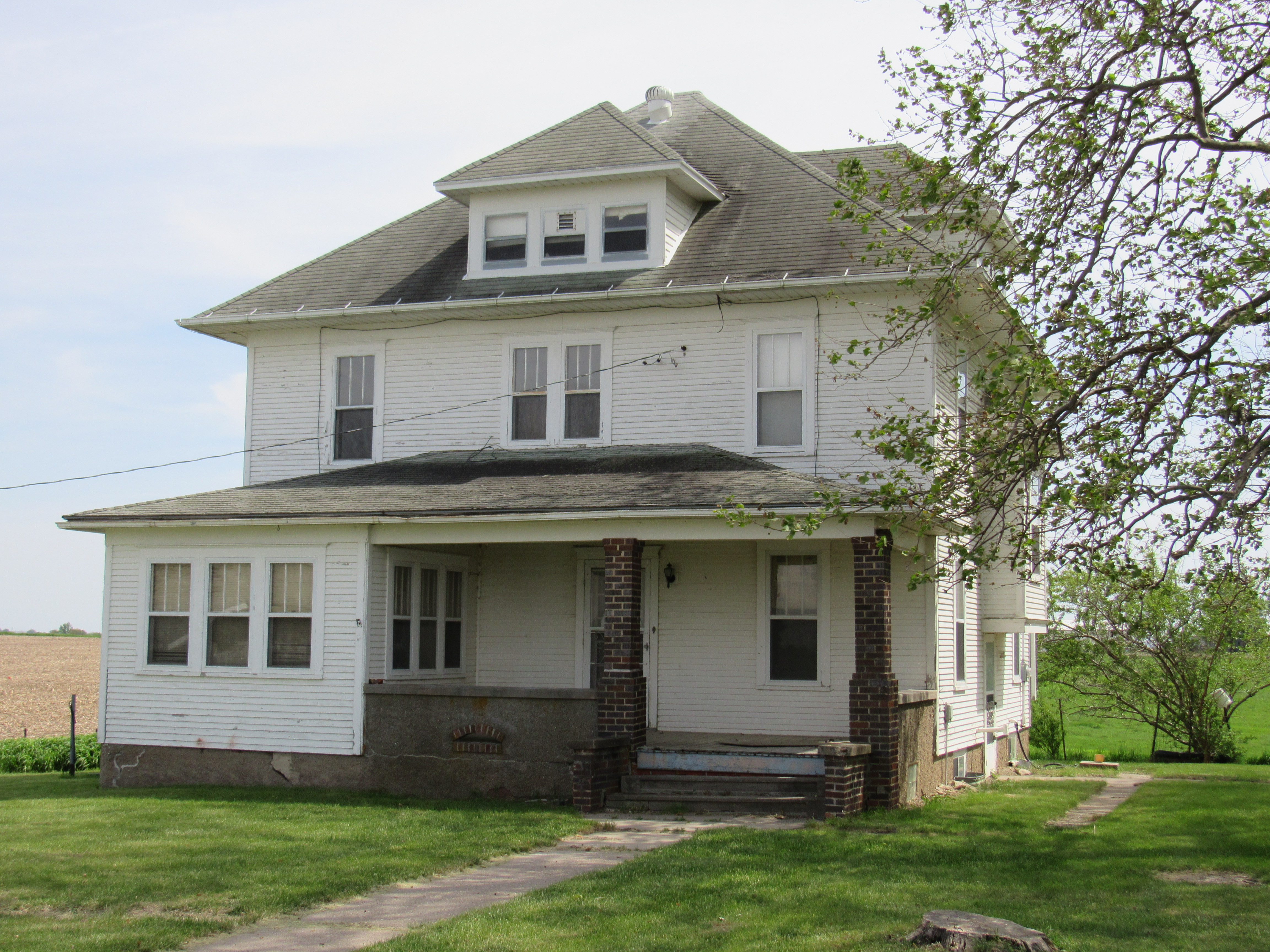 The rectory Saints Peter and Paul Roman Catholic Church southeast of Harper, Iowa in Clear Creek Township.